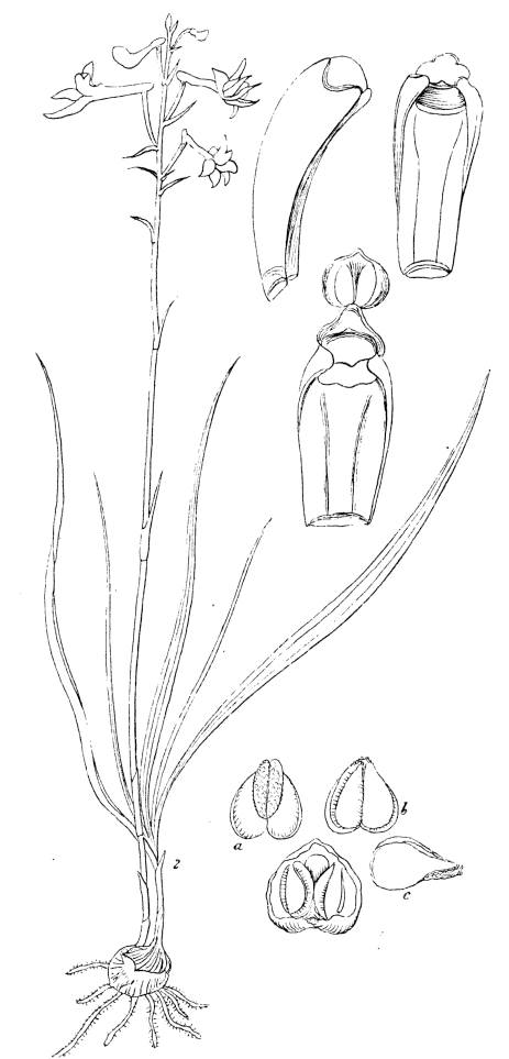 illustration of Anthogonium gracile in